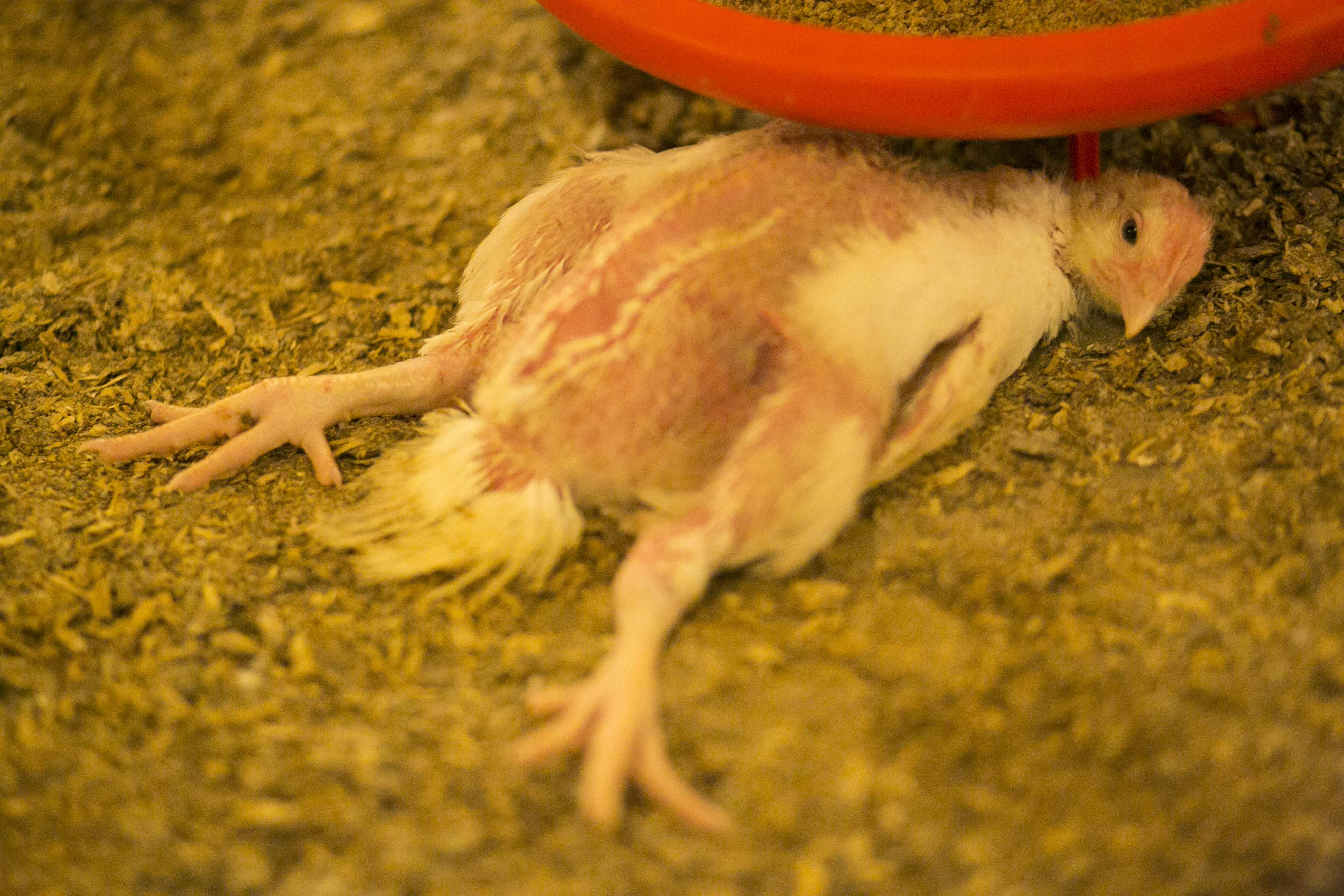 Chicken meat industry crippled 02